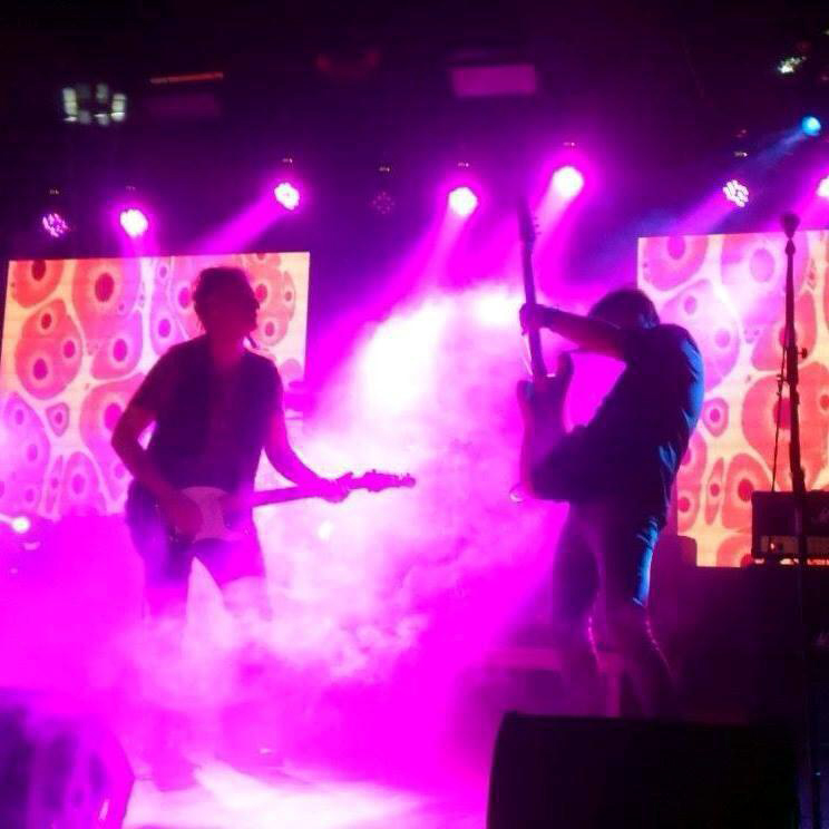 Tarkan Çakır (left) and Zülfikar Ali Cengiz (right) Kuru Kafa band rock performance in Istanbul.